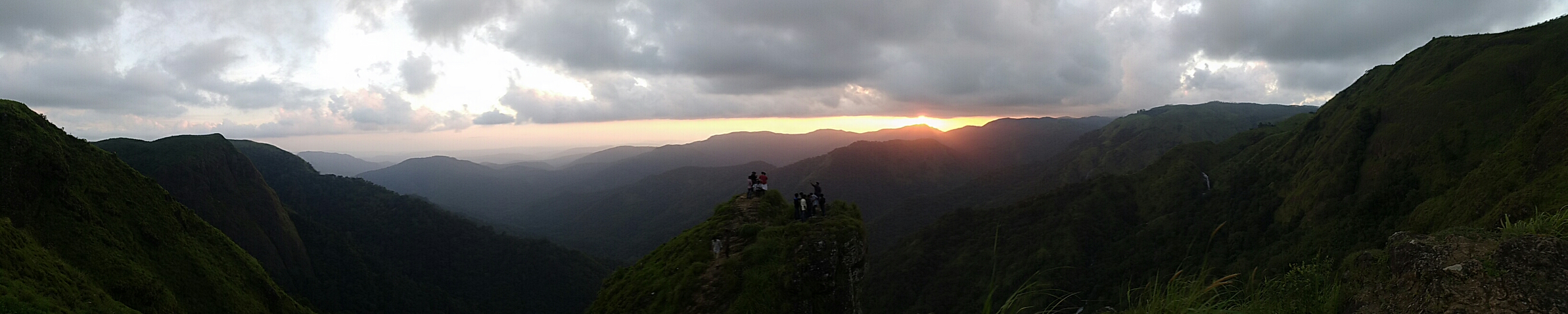 This is a panorama view taken from Parunthumpara